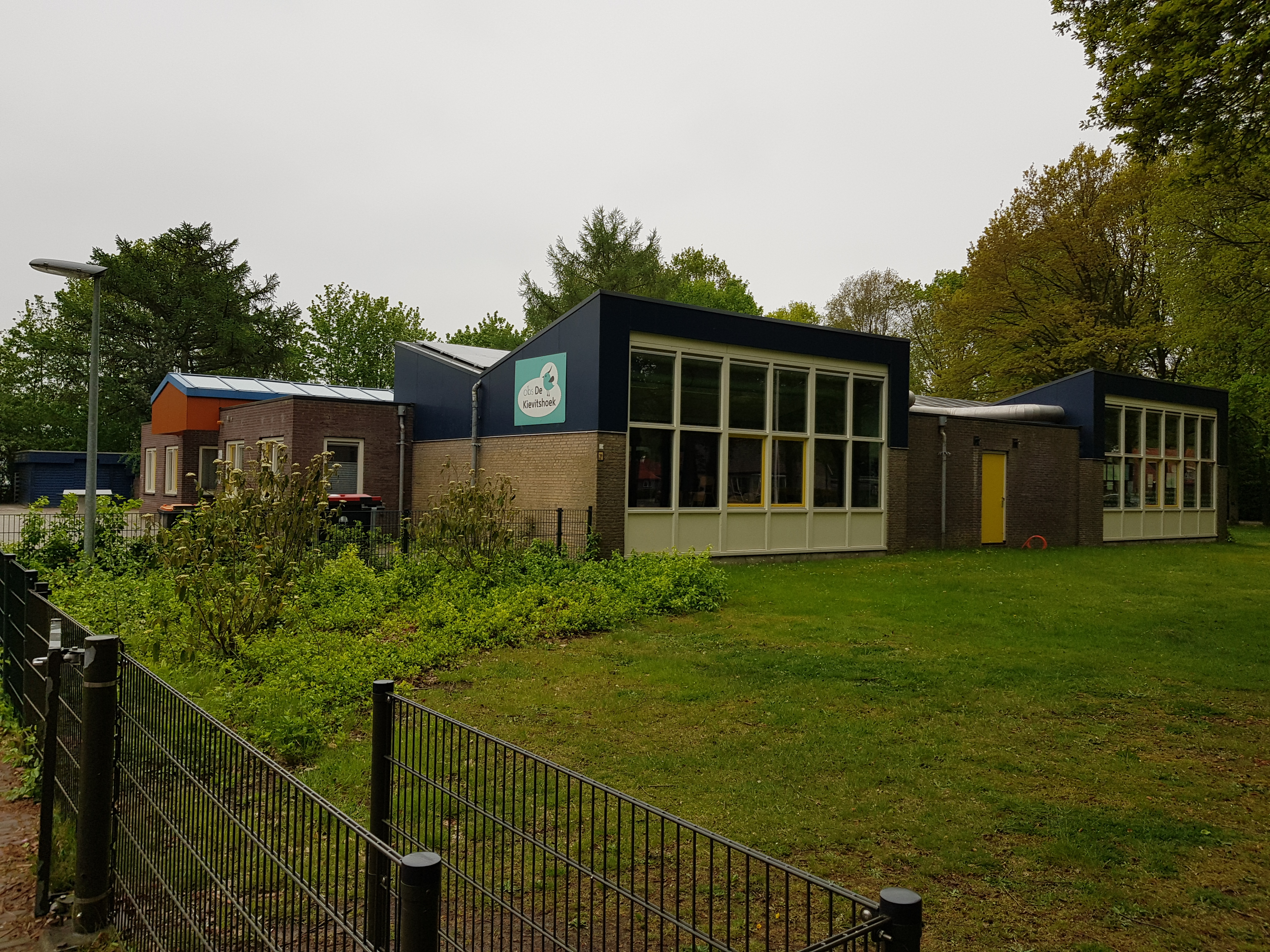 OBS De Kievitshoek in Wilhelminaoord